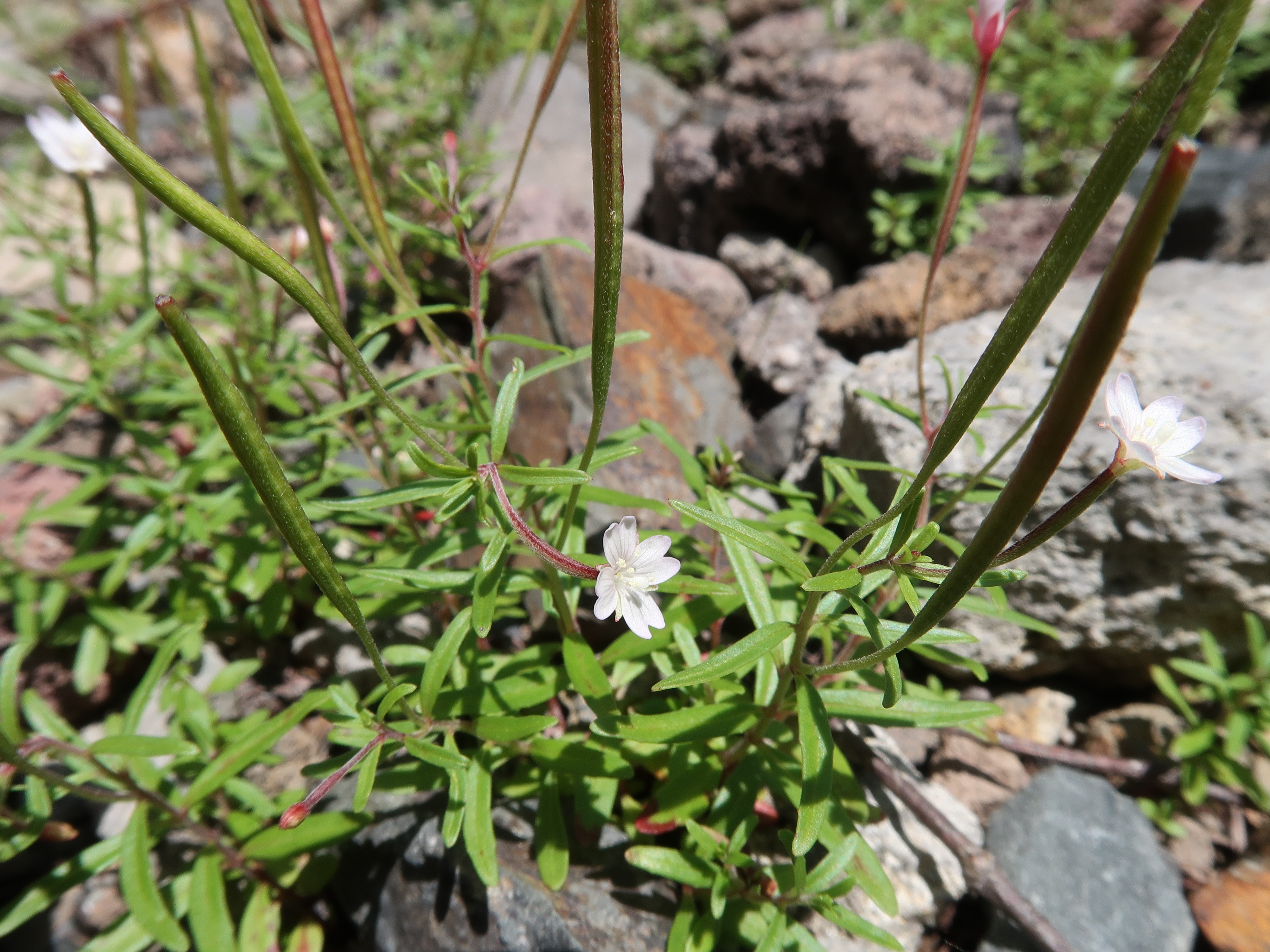 Epilobium fauriei, Nikko city, Tochigi pref., Japan